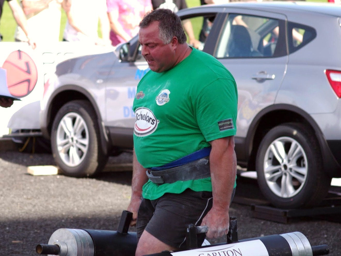 Mark Westaby - a strength athlete from England at the Farmer's Walk.